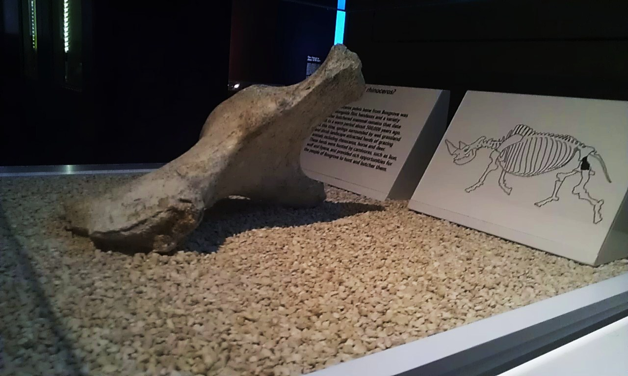 Palaeolithic rhinoceros bone showing sings of butchery excavated at Eartham Pit, Boxgrove, West Sussex. Image taken when they were exhibited at the Natural History Museum in Summer 2014.